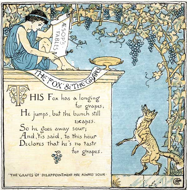 The Fox and the Grappes